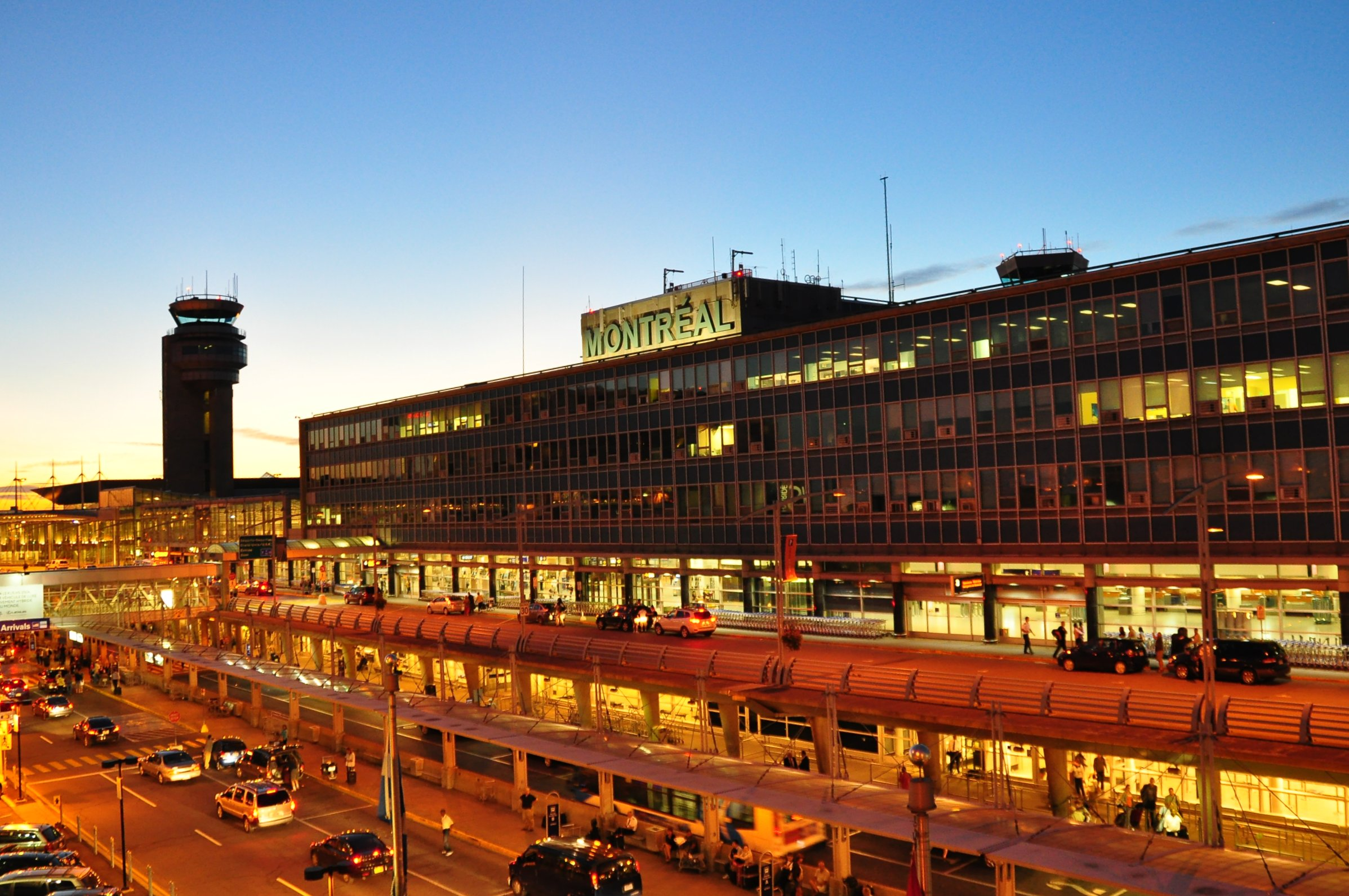 Montreal-Trudeau International Airport, Montreal, Quebec, Canada